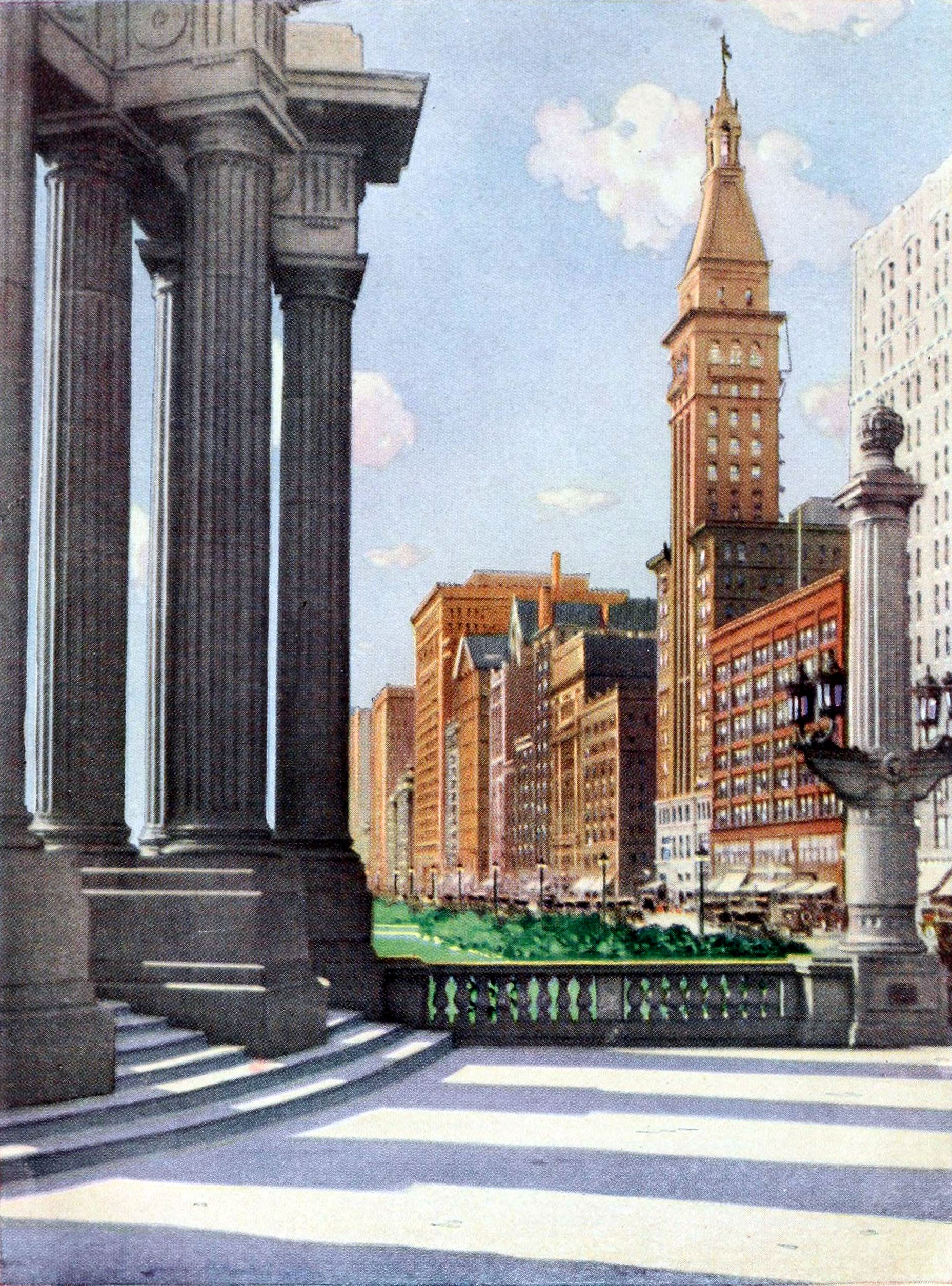 Drawing of Michigan Boulevard, Chicago.